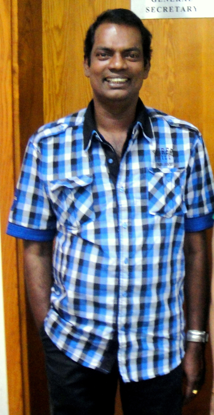 Salim kumar, Malayalam cine artist